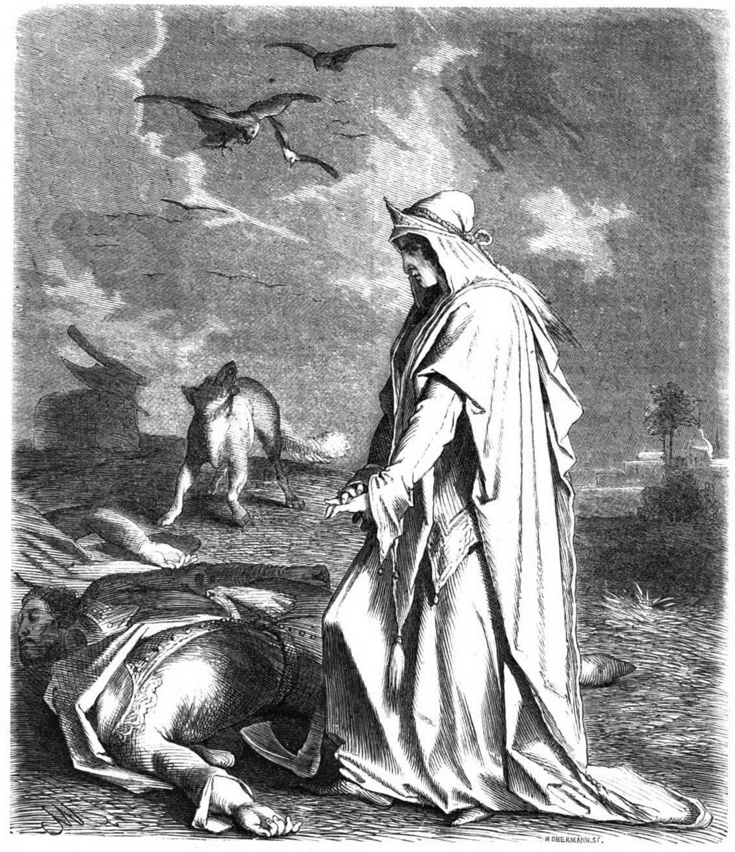 no caption